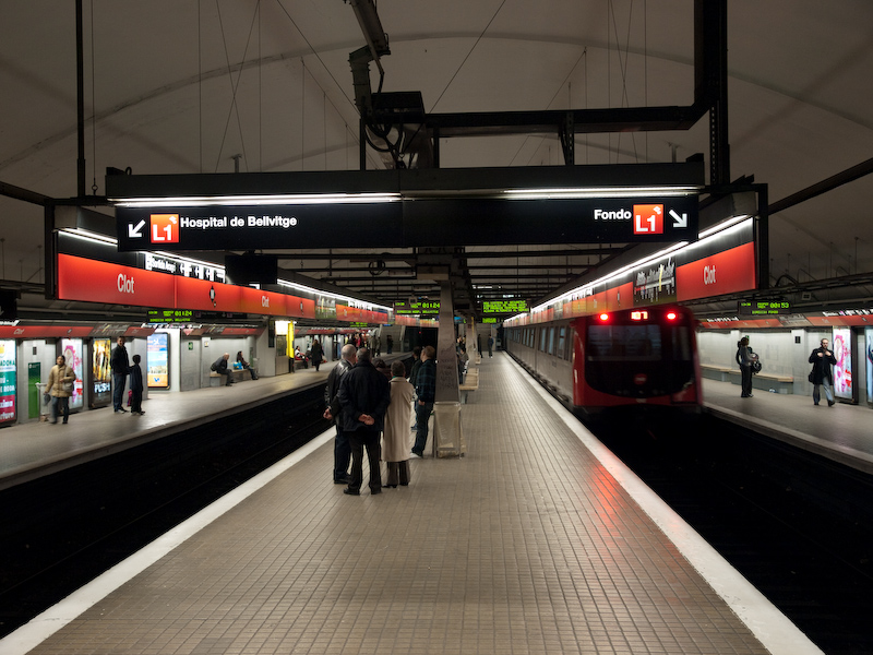 Platform for Clot station (line L1), Barcelona metro.